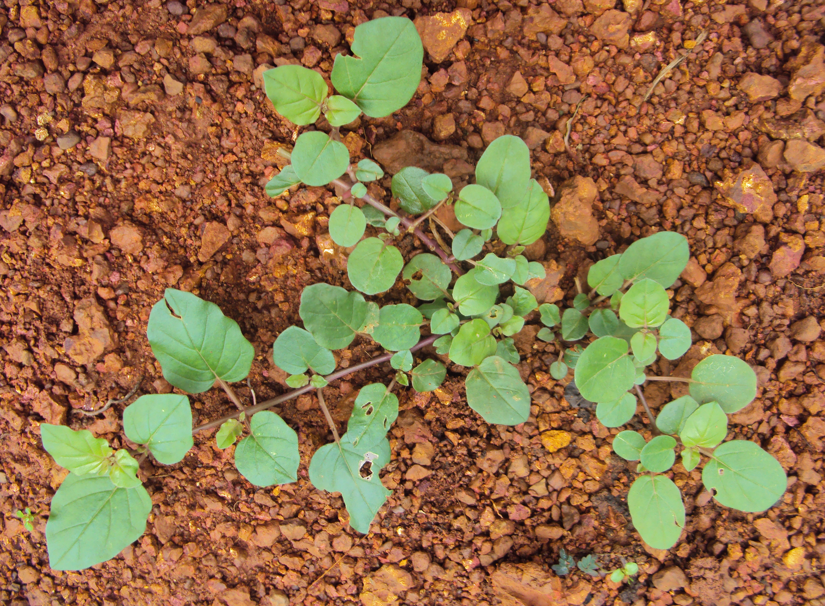 Boerhavia diffusa തഴുതാമ